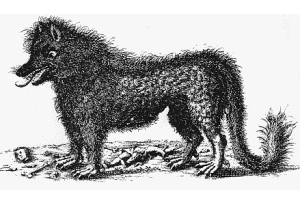 "Drawing of the monster that afflicts Gevaudan."